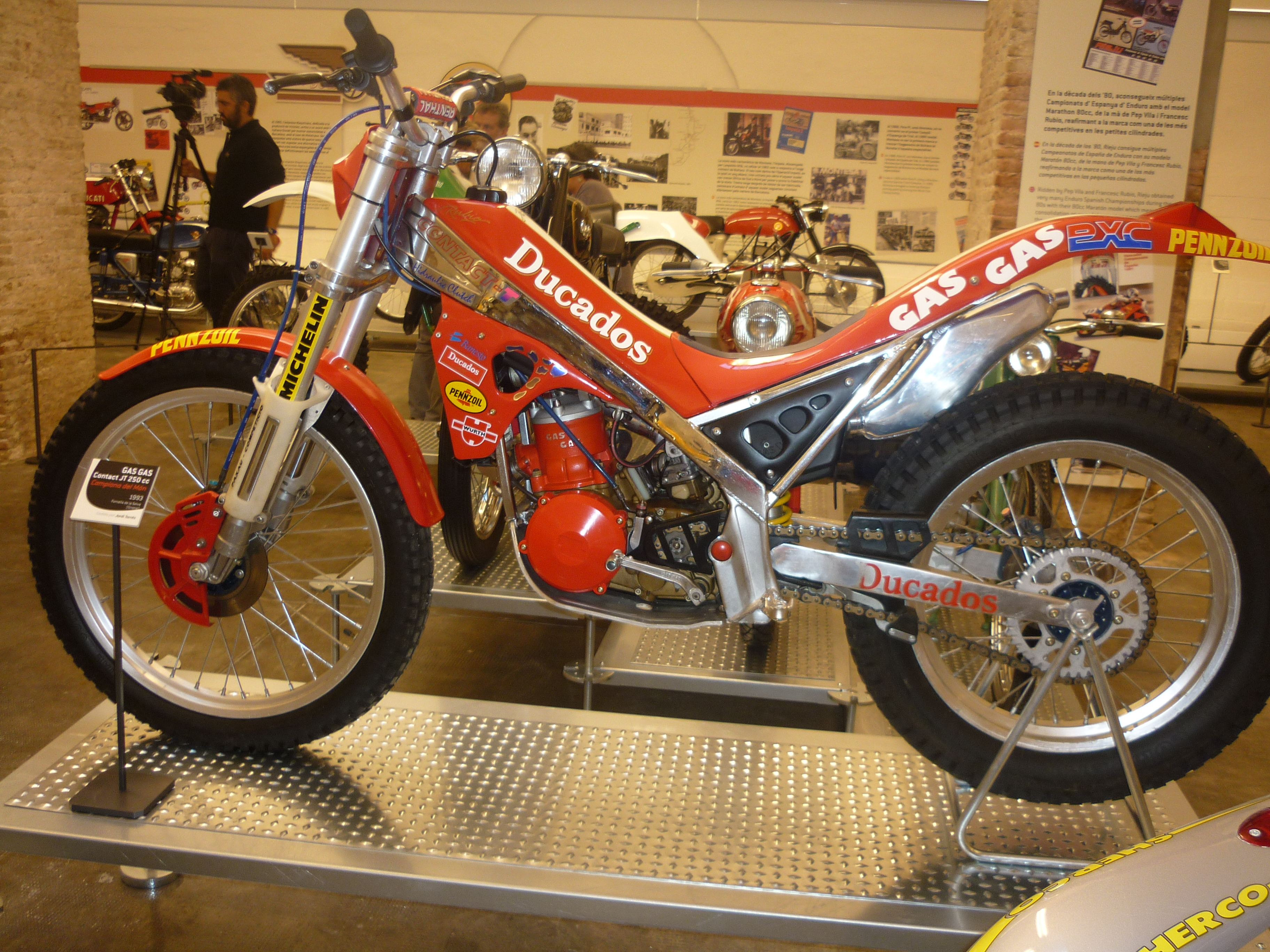 Gas Gas Contact JT 250cc, 1993 Trial World Champion ridden by Jordi Tarrés.Museu de la Moto de Barcelona (Catalonia).